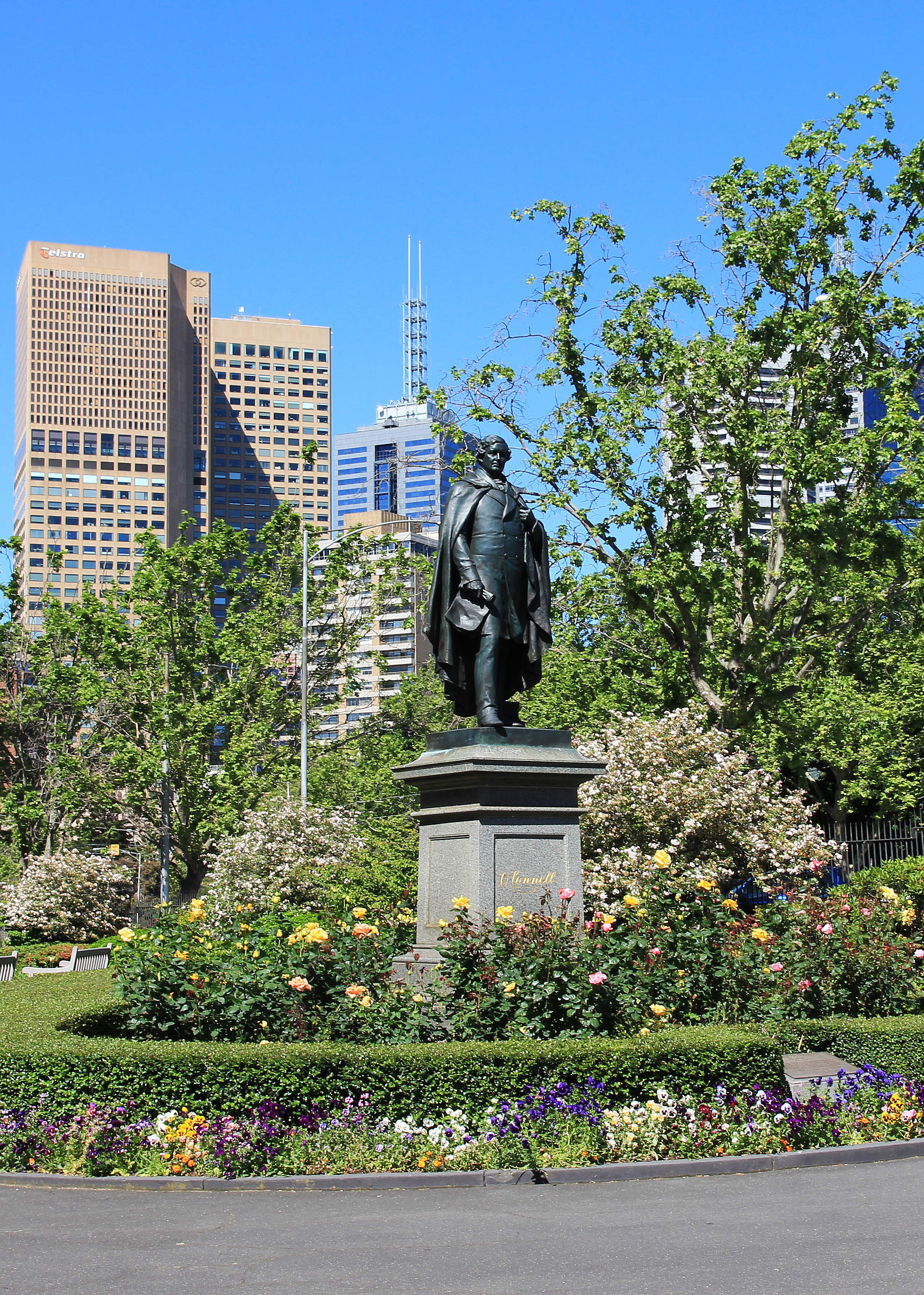 St Patrick's Cathedral - Irish Nationalist Leader Daniel O'Connell Statue